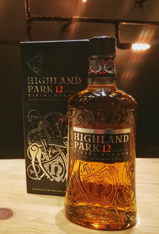 Highland Park 12 y.o. new bottle